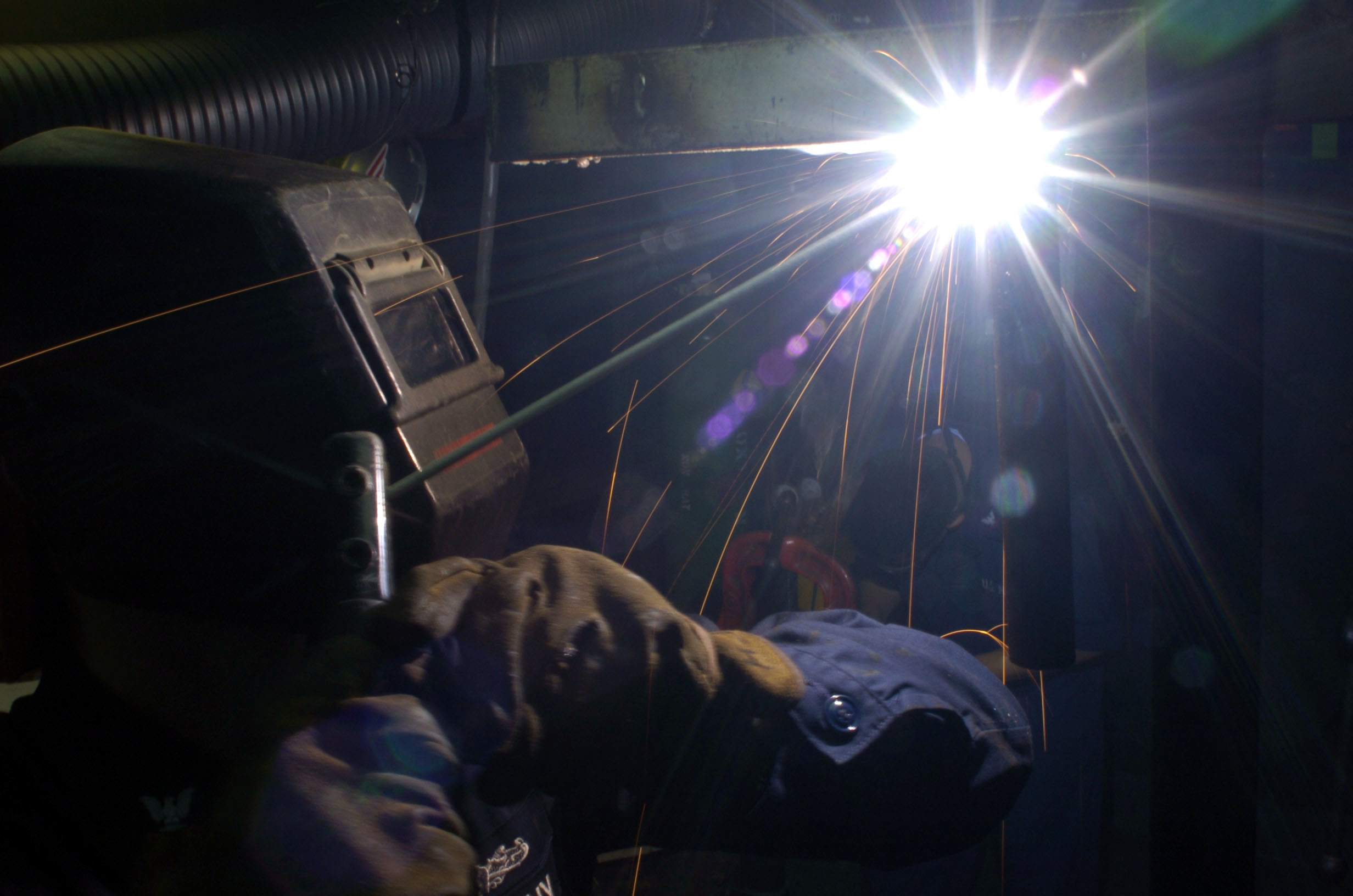 Pacific Ocean (Mar. 8, 2005) - Hull Maintenance Technician 2nd Class Benjamin Bates of Cabot, Ark., practices arc welding pipes together inside the Pipe Shop aboard the conventionally powered aircraft carrier USS Kitty Hawk (CV 63). Hull Technicians are responsible for maintaining Kitty Hawk's hull, fittings, piping system and machinery. Currently under way in the 7th Fleet area of responsibility, Kitty Hawk demonstrates power projection and sea control as the U.S. Navy's only permanently forward-deployed aircraft carrier, operating from Yokosuka, Japan. U.S. Navy photo by Photographer's Mate 3rd Class Lamel J. Hinton (RELEASED)